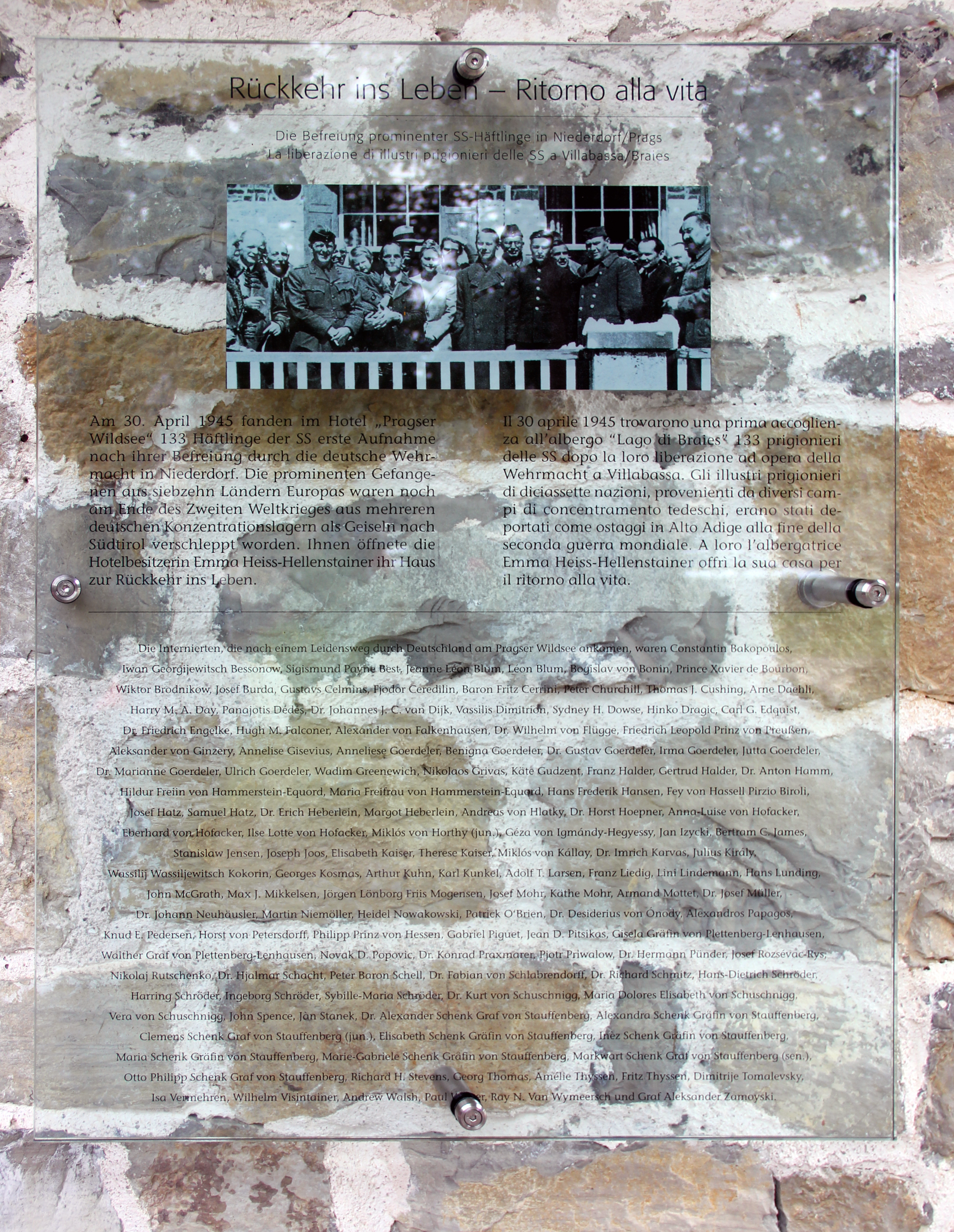 Memorial plaque, Rückkehr ins Leben, Pragser Wildsee, Prags, Italy